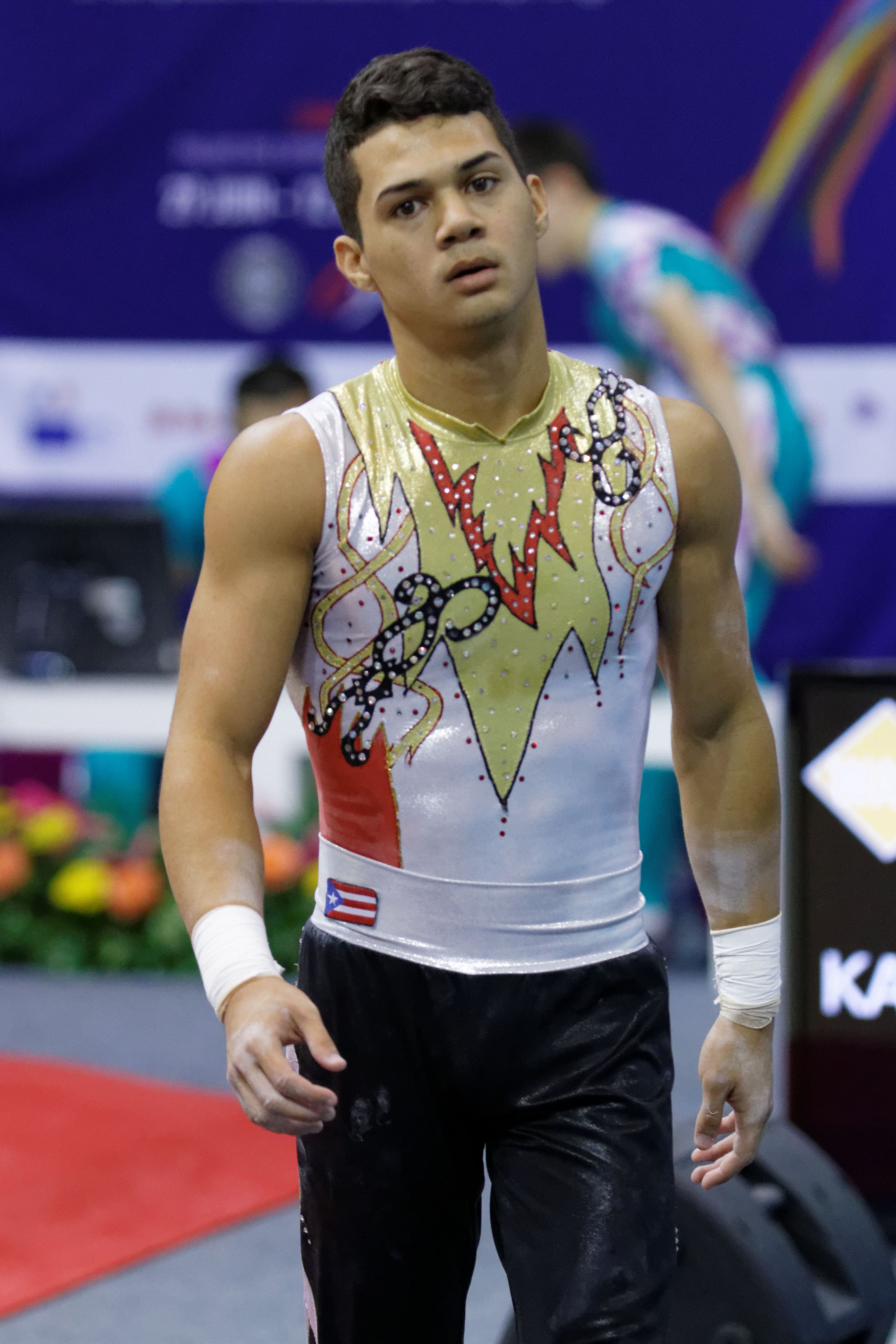 2014 Acrobatic Gymnastics World Championships, 10th-12 July, Levallois-Perret, France. Qualifications: men's pair. Puerto Rico.